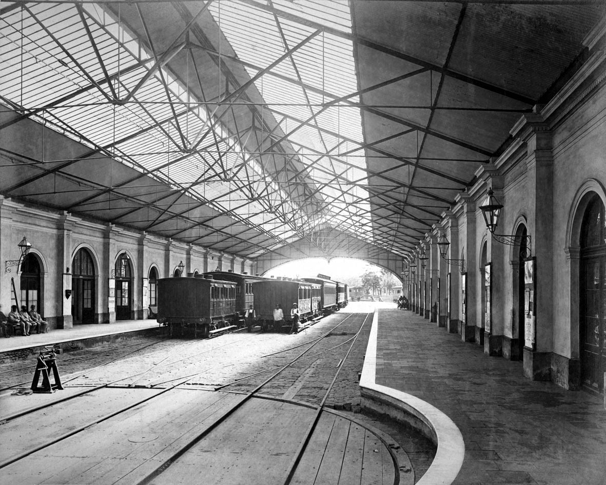 Del Parque train station, terminus of BA Western Railway.